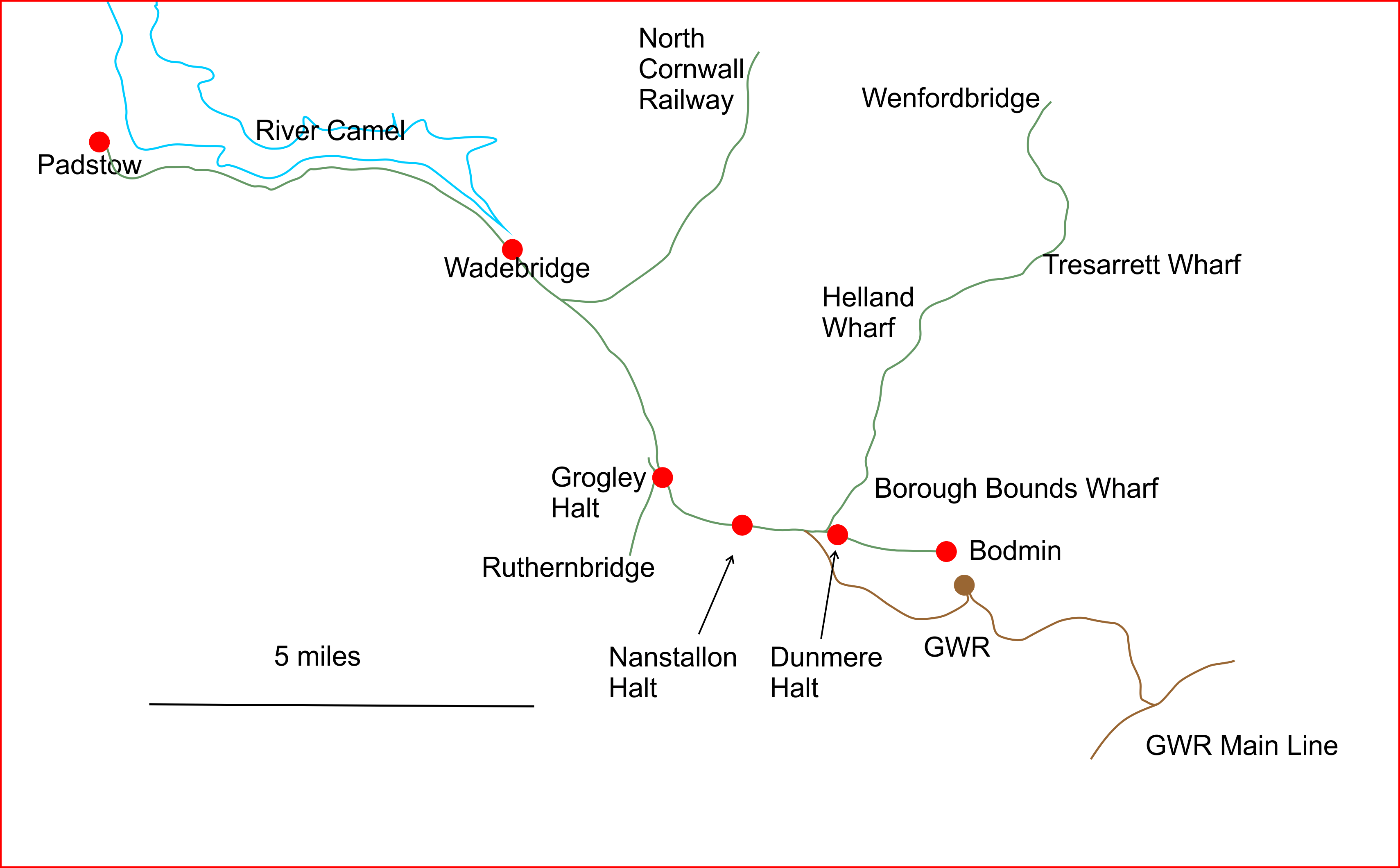 Map of Bodmin & Wadebridge Railway system in 1923